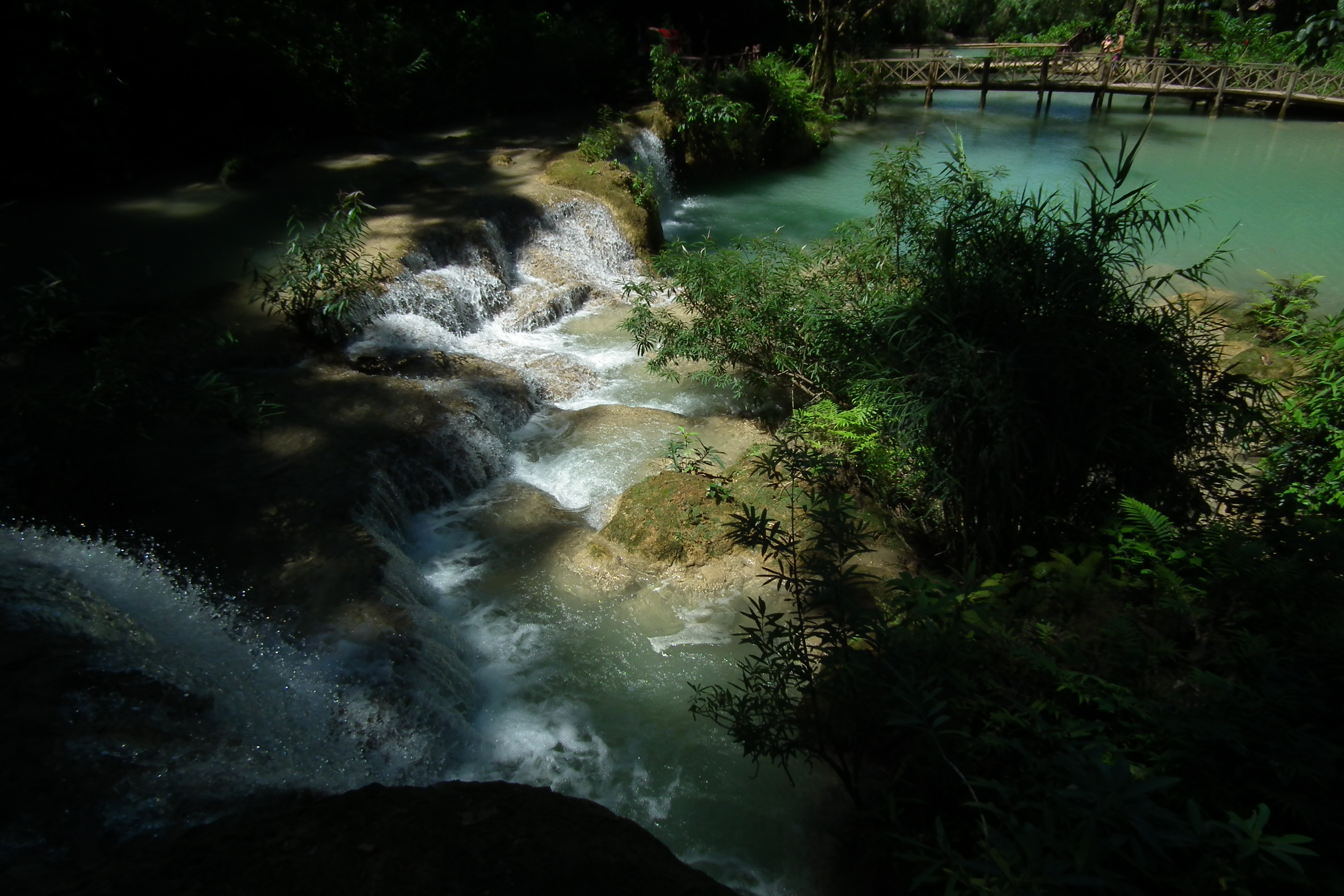 Kuang Si Waterfalls Luang Prabang-Laos